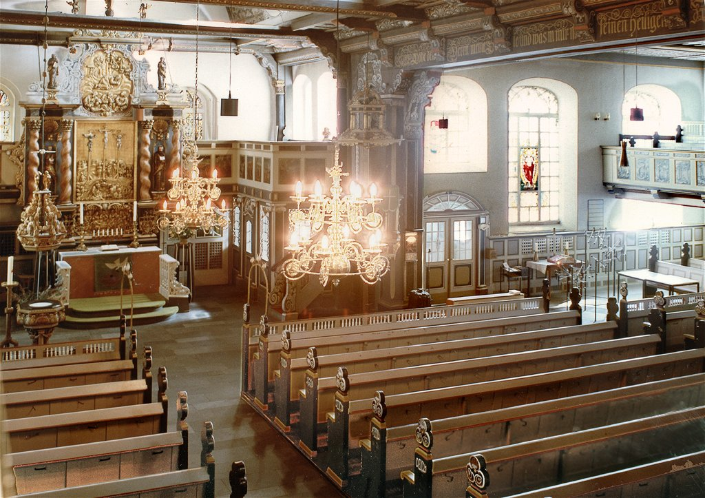 Church St. Nikolai, Interior to the east, Elmshorn, Germany